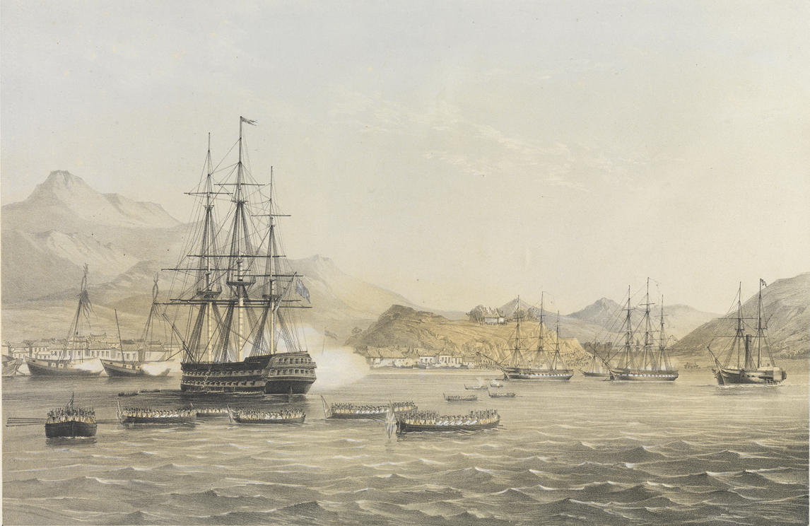 Taking the island of Chusan by the British, 5 July 1840.